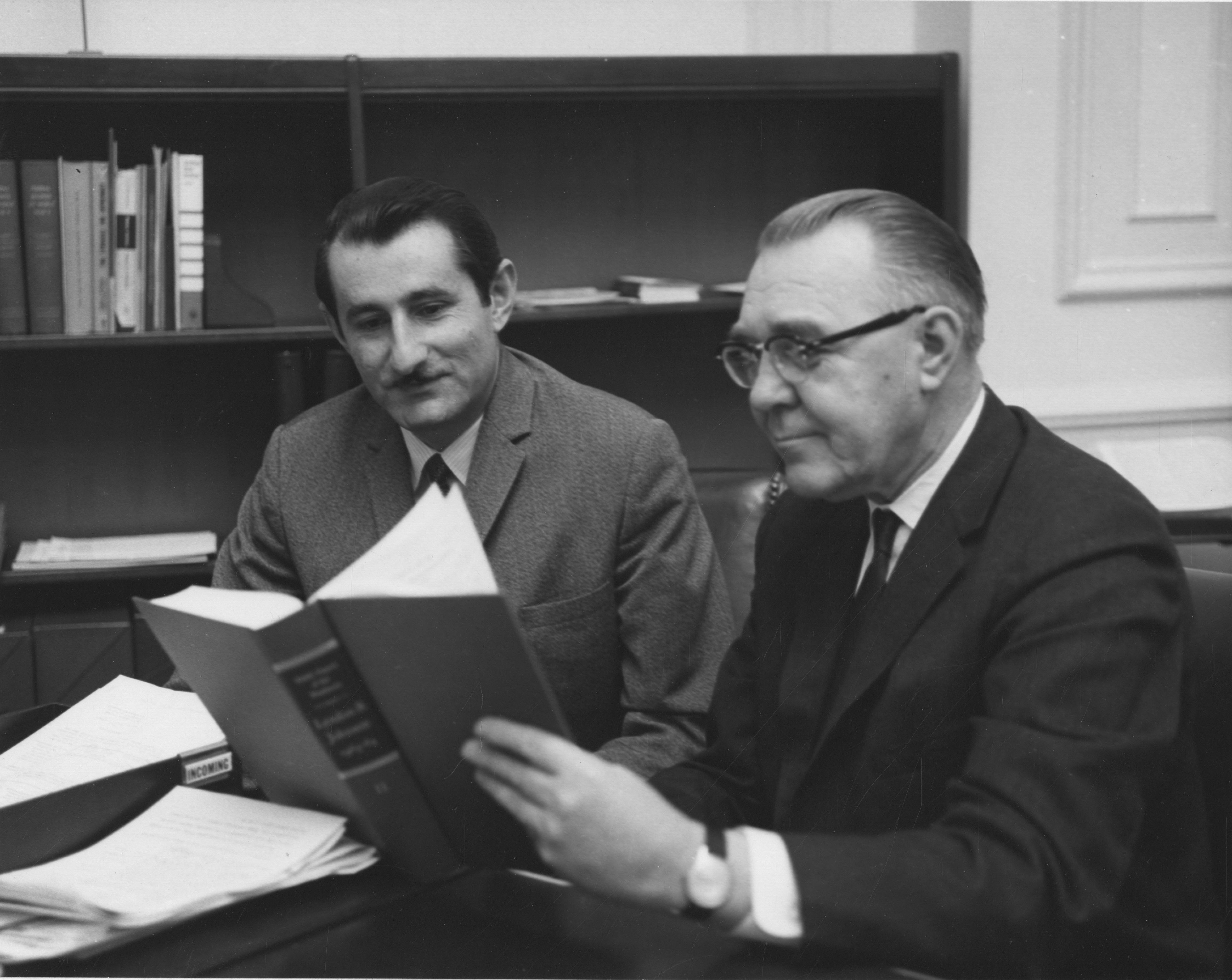 Creator(s): General Services Administration. National Archives and Records Service. Office of Educational Programs. Education Division. ?-4/1/1985 Series: Historic Photograph File of National Archives Events and Personnel, 1935 - 1975 Record Group 64: Records of the National Archives and Records Administration, 1789 - ca. 2007 Production Date: 1935 - 1975 Access Restriction(s): Unrestricted Use Restriction(s): Unrestricted Scope and Content: This is a photograph of Mr. Cyrus Parham, Archivist Designate of Iran, standing with Dr. Robert Bahmer, Archivist of the United States in the winter of 1965-1966. Contact(s): National Archives at College Park - Still Pictures (RDSS) National Archives at College Park 8601 Adelphi Road College Park, MD 20740-6001 Phone: 301-837-0561 Fax: 301-837-3621 National Archives Identifier: 23855032 Local Identifier: 64-NA-2366 Persistent URL